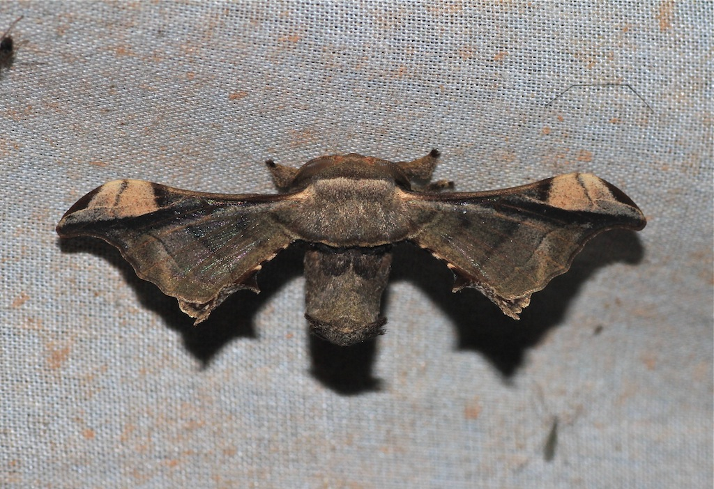 Gunda javanica, Borneo, Trusmadi area, 2100 m